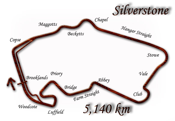 Diagram of the Silverstone Circuit following changes made in 1997. Used for Britsh Grands Prix from 1997 to 1999.